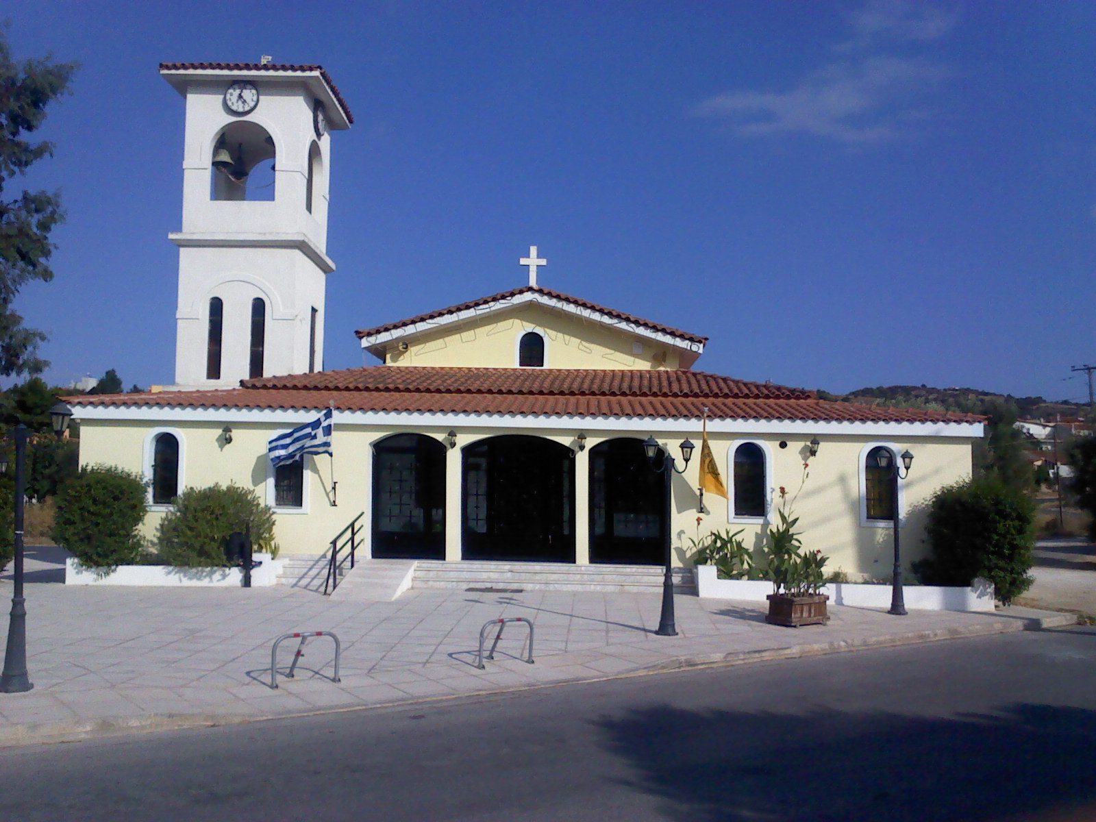 Agios Kosmas Spata